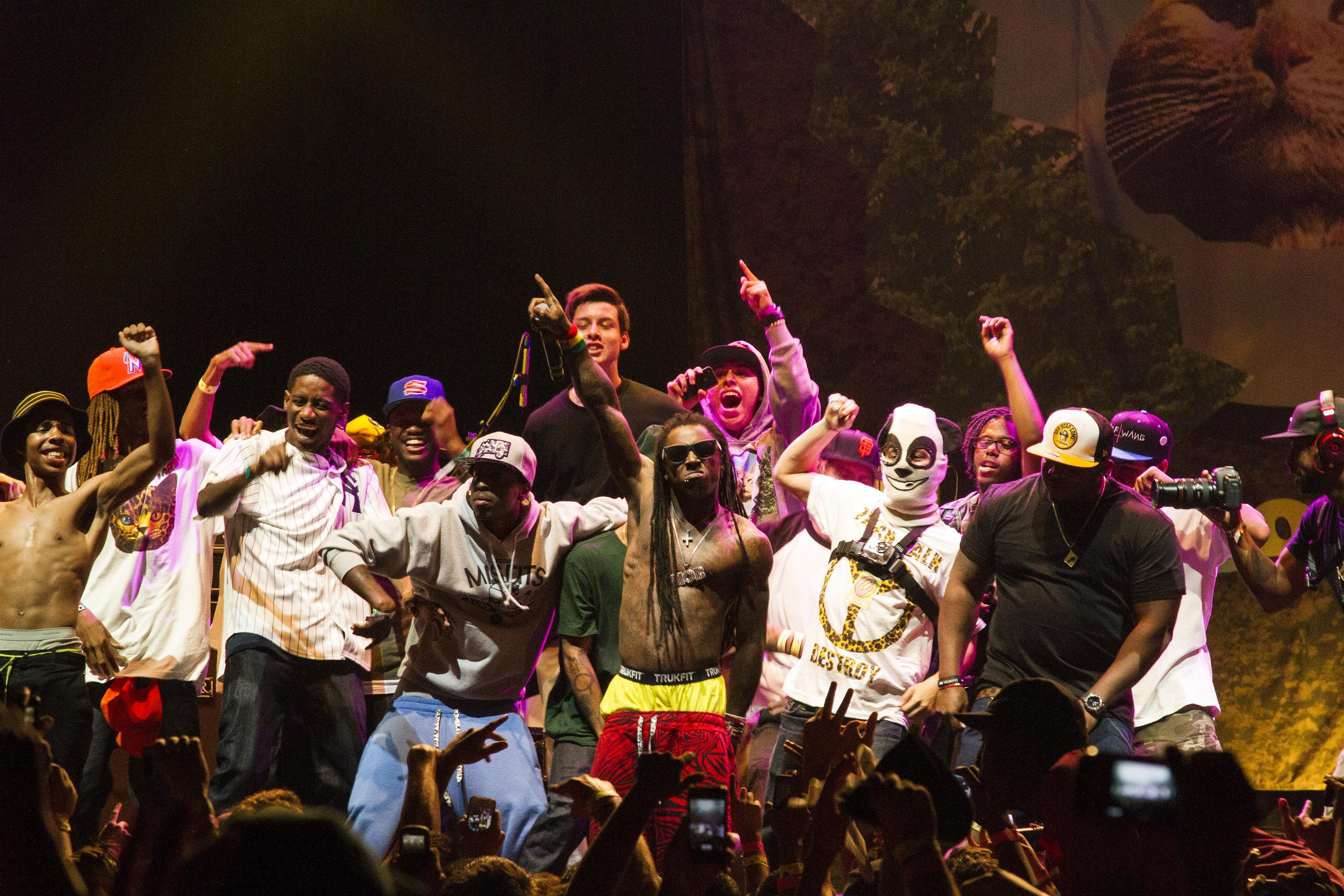 OddFutureconcert